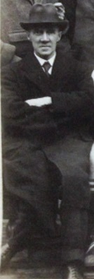 Joe Schofield